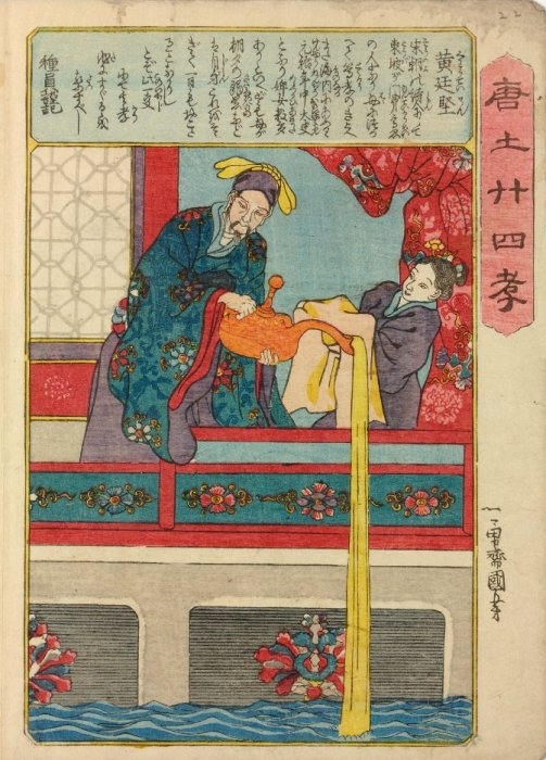 The print's legend says: "Kôteiken was a famous Northern Song calligrapher and poet who was so devoted to his mother that he emptied her chamber pot himself." Chūban format, tate-e (portrait).